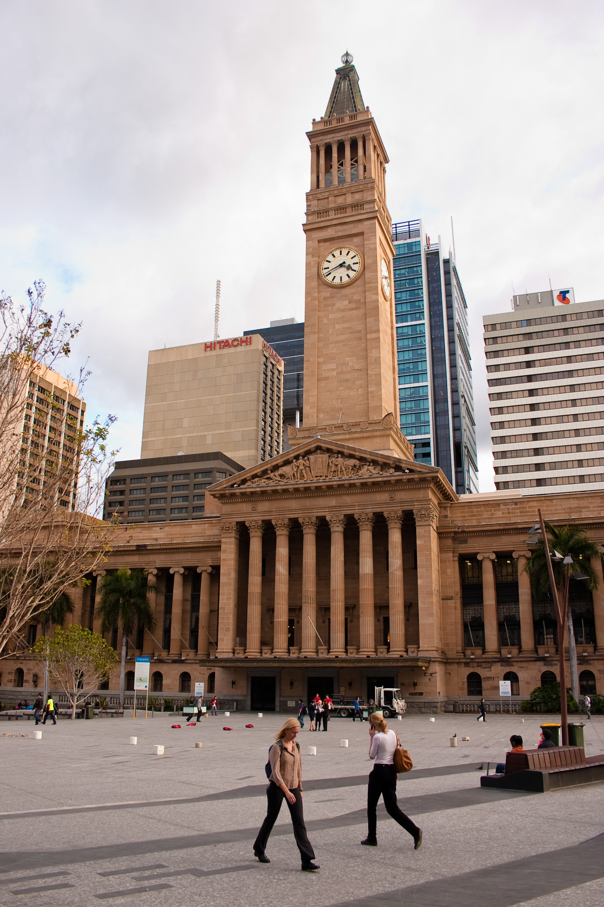 Brisbane Town Hall